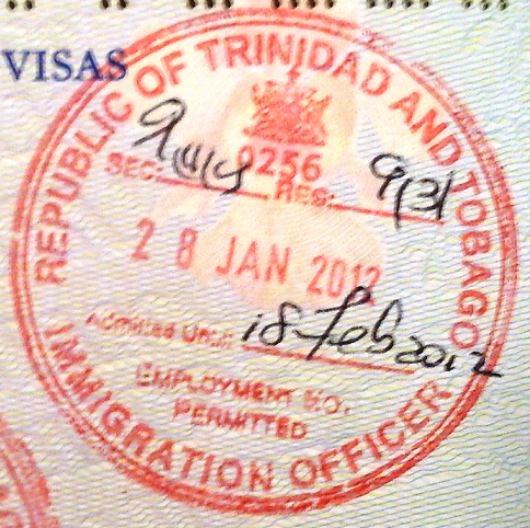 Passport Stamp from Trinidad and Tobago